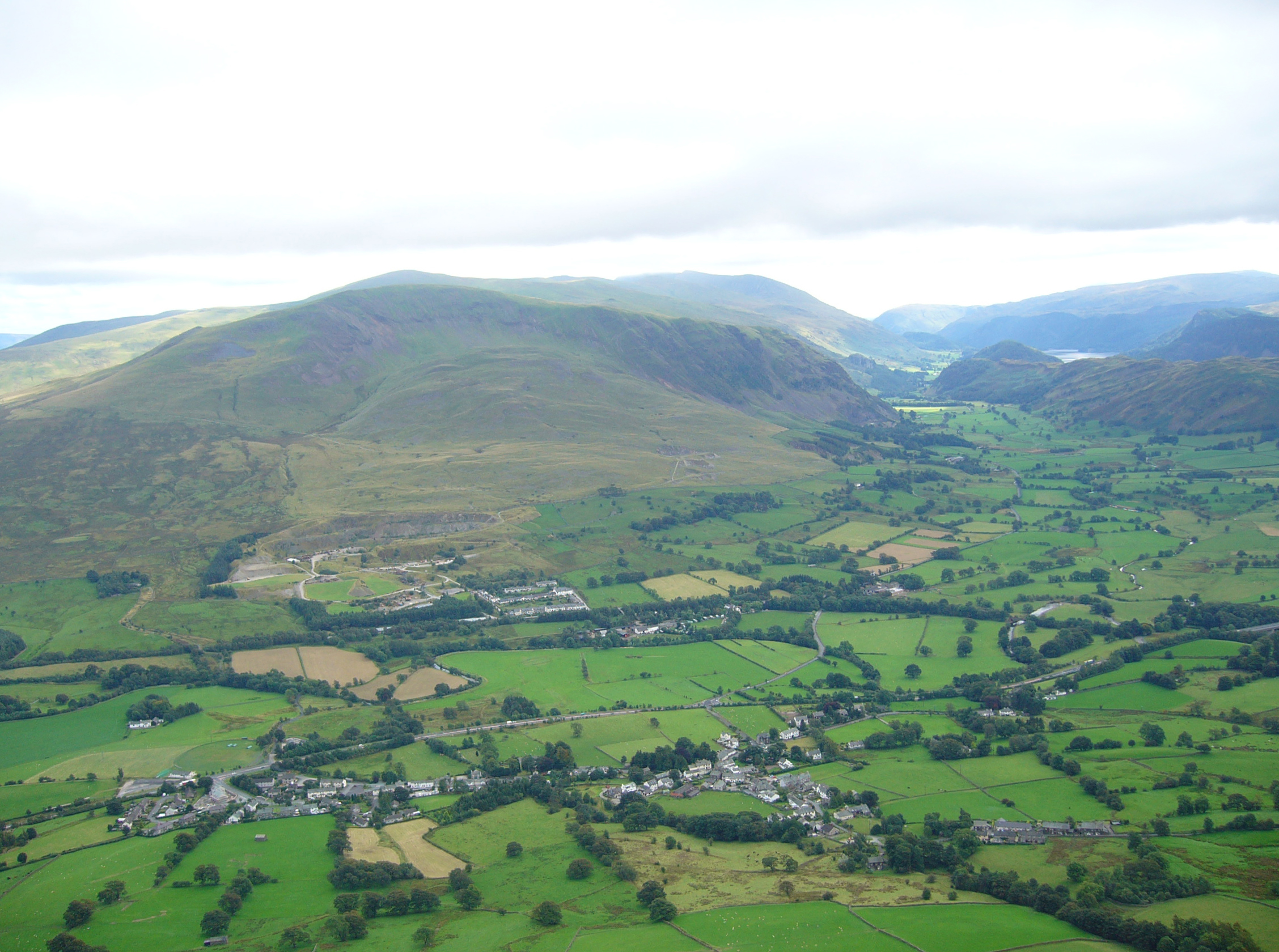 View of St Johns In the Vale from Blencathra, the Lake District, UK